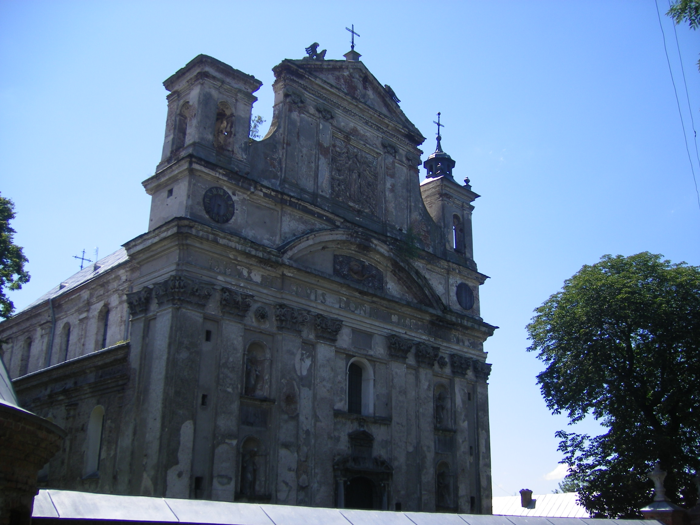 Olyka, baroque r.c. church